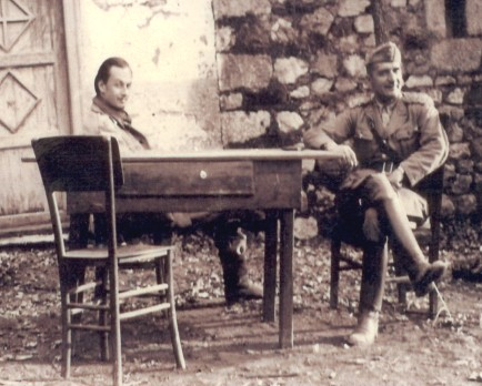 The Uk mission with Julian Amery in Albania, helps the general Pervizi, to struggle towward communists. Аҧсшәа: Missioni i Uk në Shqipëri ndihoi gjeneral Pervizin në luftën kundêr komunistëve.